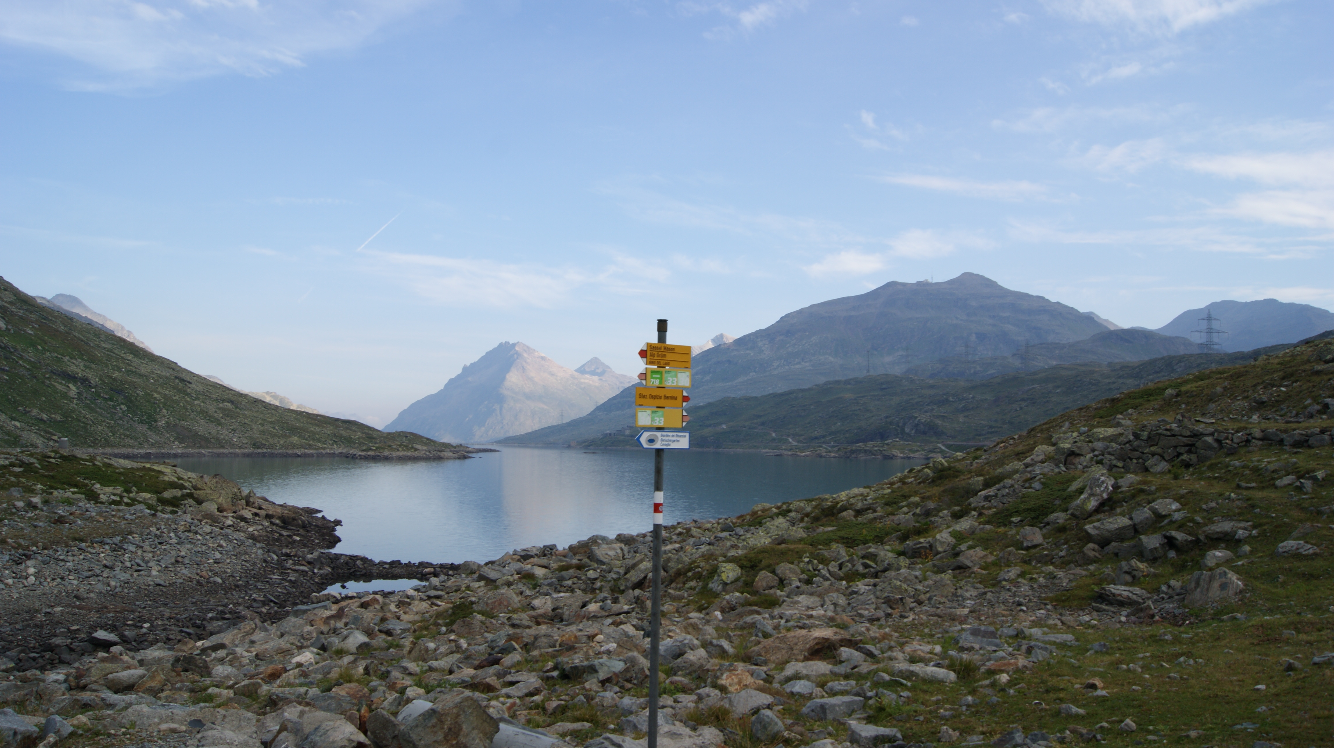 View over the Lago Bianco (Bernina, Grisons, Switzerland) to north. Hiking sign post.